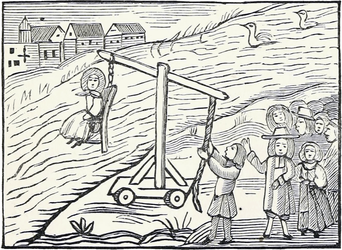 Illustration from an 18th century chapbook reproduced in Chap-books of the eighteenth century by John Ashton (1834).